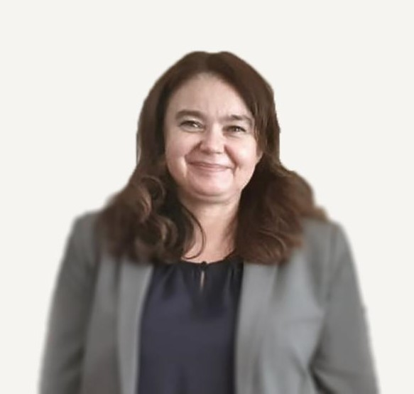 Violetta Sobierańska, Polish diplomat